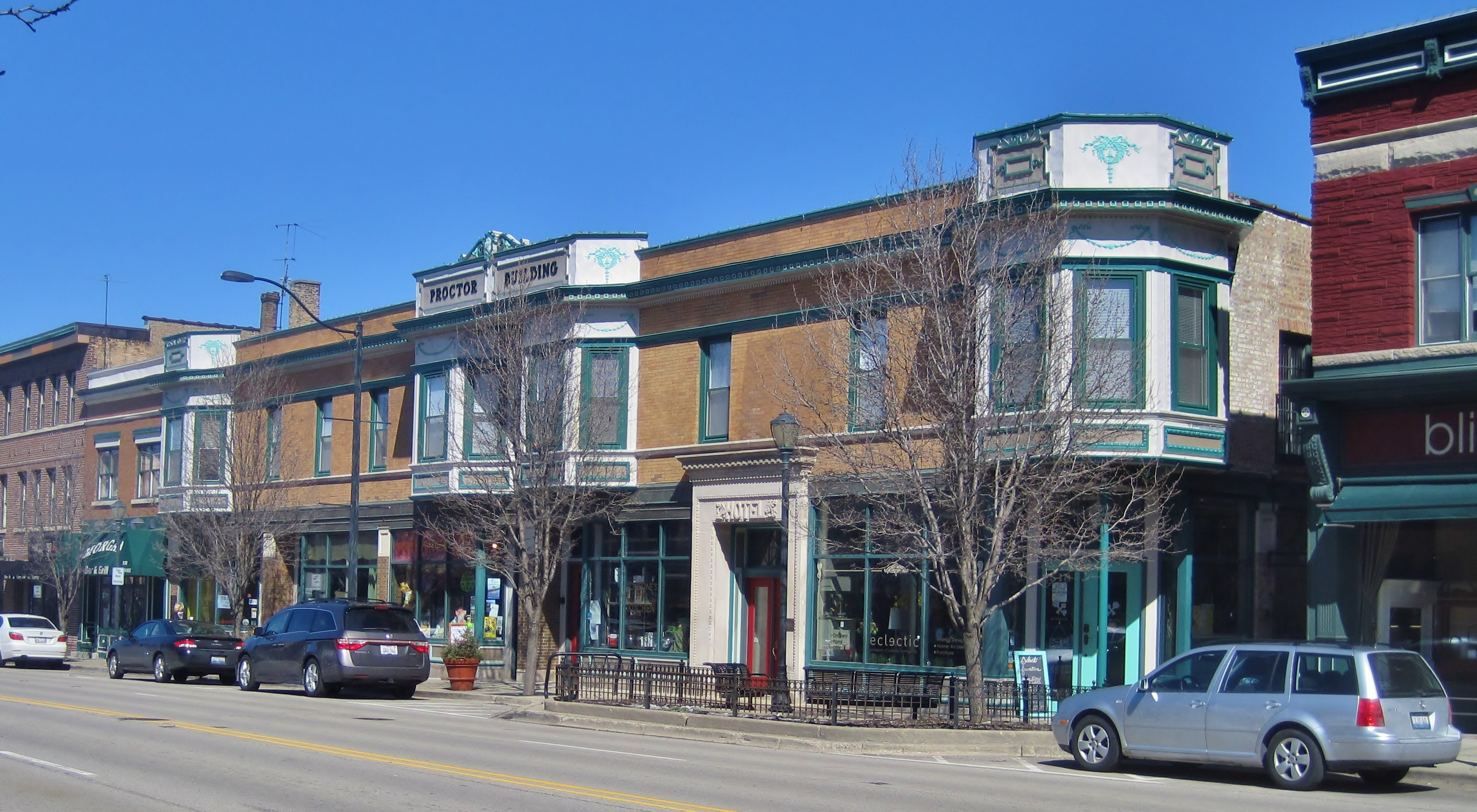 The Proctor Building in Libertyville (1903). It was built during a period of economic boom for the town, resulting from a recent rail connection. A syndicate was formed by major investors who held interests in the financial resources of the community. R. J. Proctor was a member of this syndicate, and had the Proctor building built with his brothers and cousin. The building was the largest of three hotel buildings in Libertyville. In the 1920s, The Atlantic & Pacific Tea Company, the first national food store, moved into the building. A&P expanded the structure on the second floor. F. W. Woolworth Co. occupied part of the building alongside A&P starting in 1934. A&P built a new store directly across the street in 1937 and moved out of the Proctor Building. Replacing A&P was a Jewel Tea Food Store in 1940. Jewel was a tenant until it built a new store on East Cook Street in 1952. Woolworth's expanded in 1946, and remained until the early 1970s.